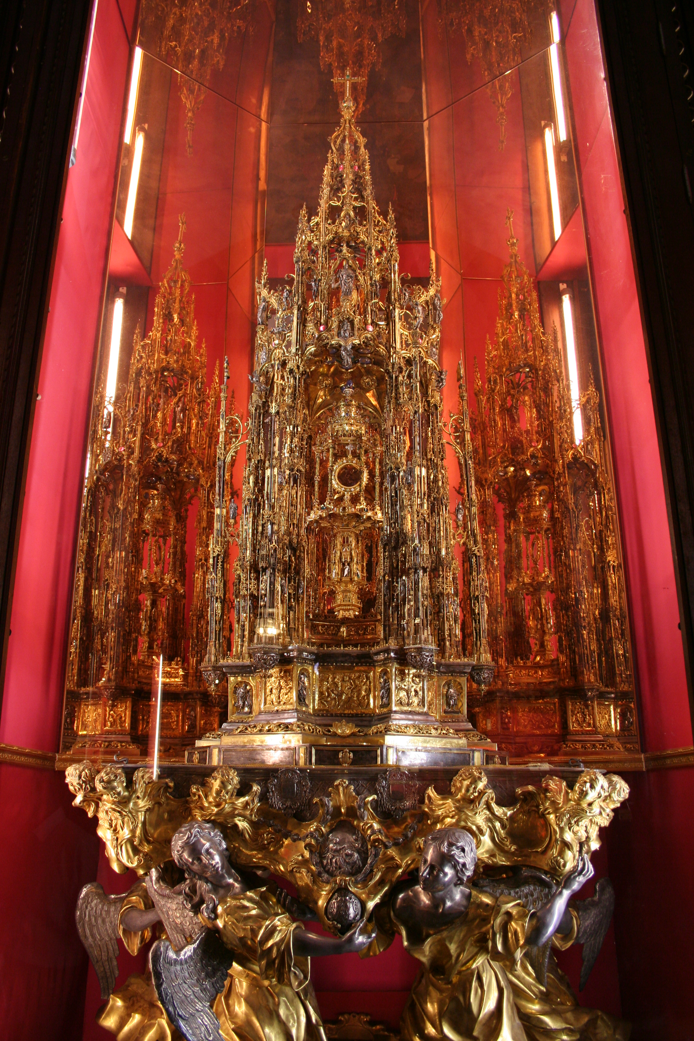 Monstrance